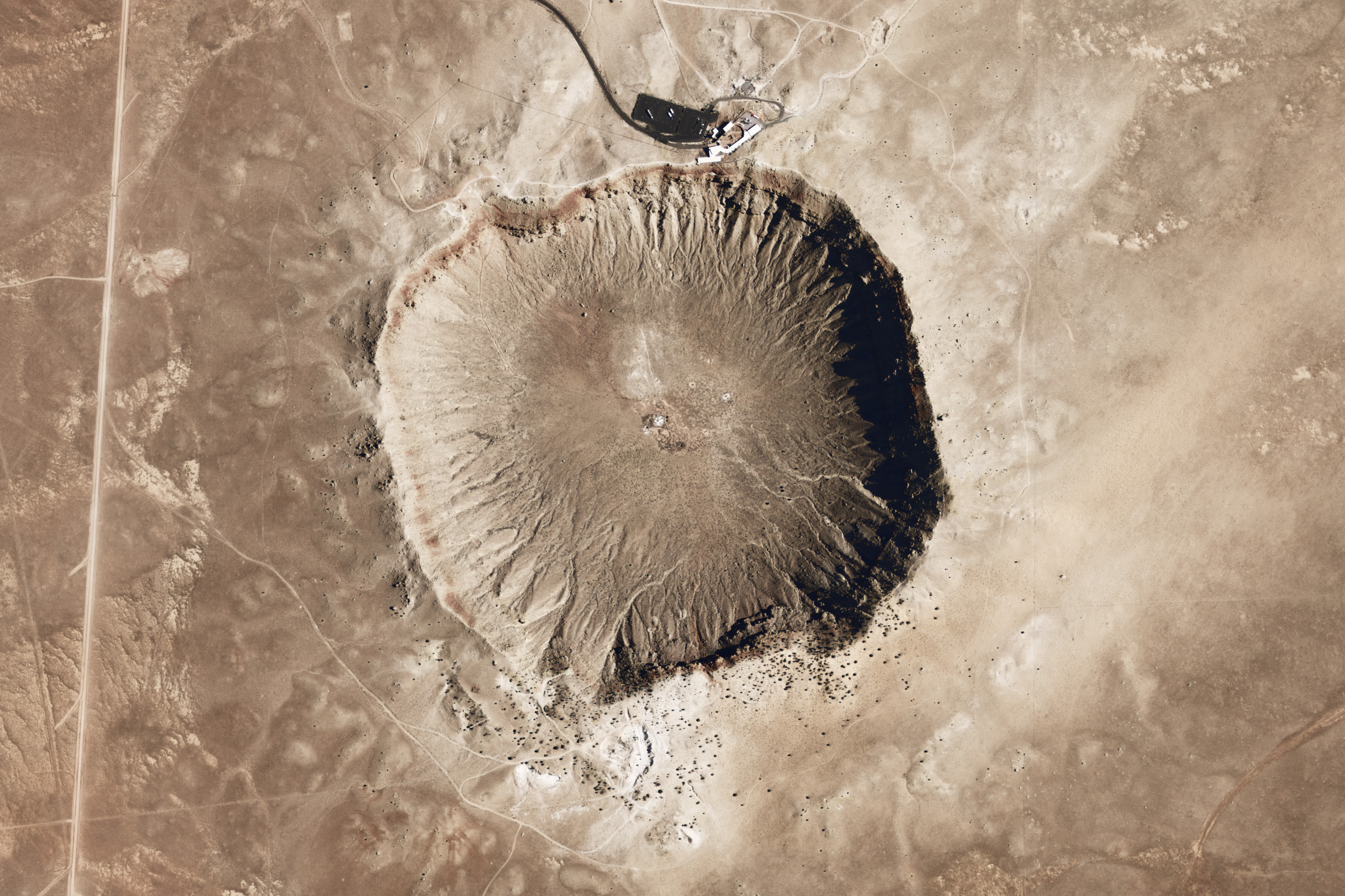 This image has a resolution of 2 meters per pixel, and illumination is from the right. Layers of exposed limestone and sandstone are visible just beneath the crater rim, as are large stone blocks excavated by the impact.